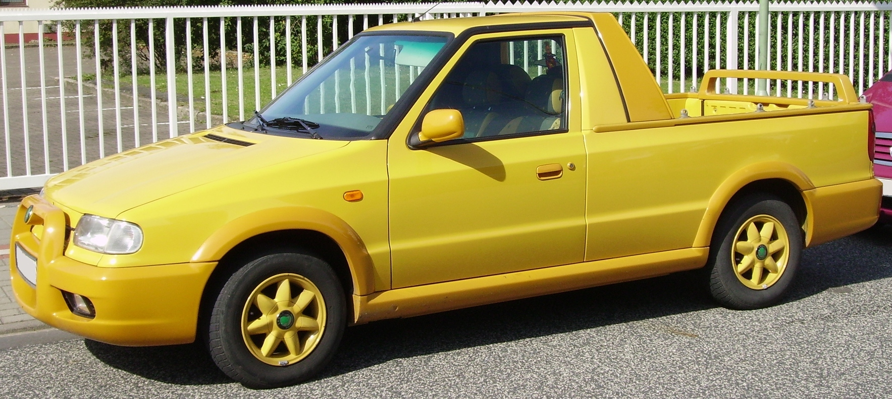 A Škoda Felicia pick-up